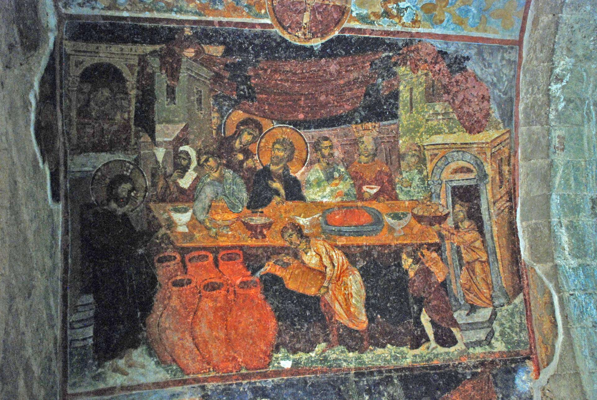 Trabzon, Hagia Sophia, marriage at Cana